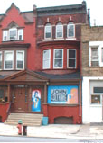 John Coltrane House, a National Historic Landmark in Philadelphia, Pennsylvania